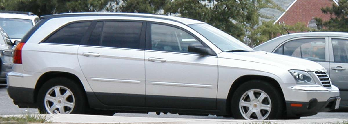 2004-2006 Chrysler Pacifica photographed in USA.